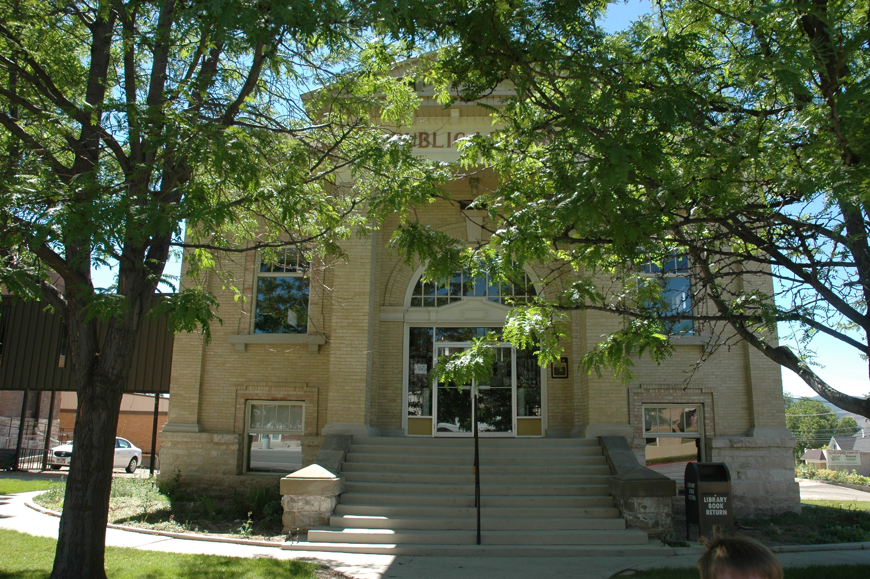 Manti Carnegie Library, a historic building in Manti, Utah, United States, was built in 1912 as a Carnegie library.